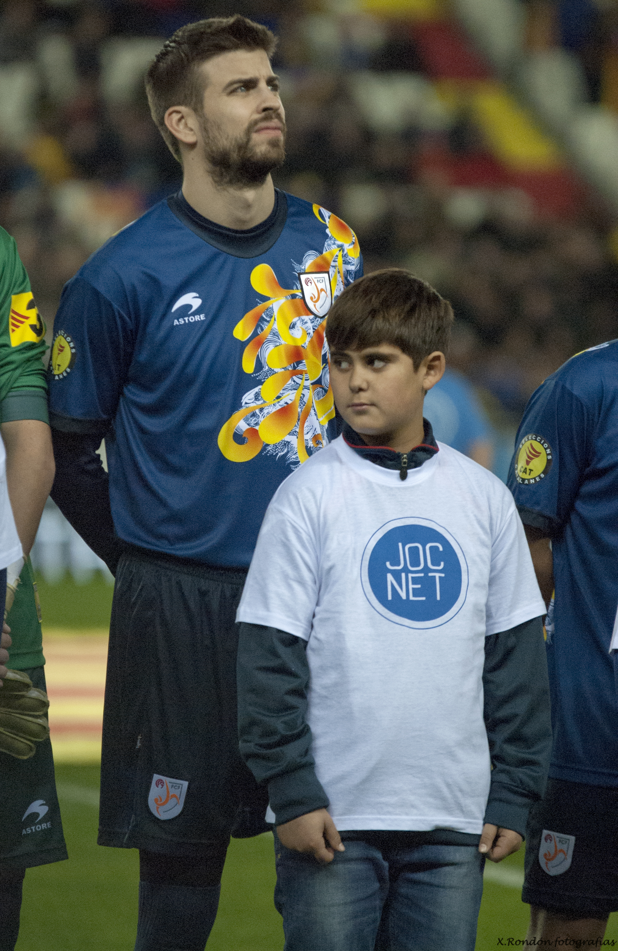 Gerard Piqué during friendly match Catalonia vs. Nigeria